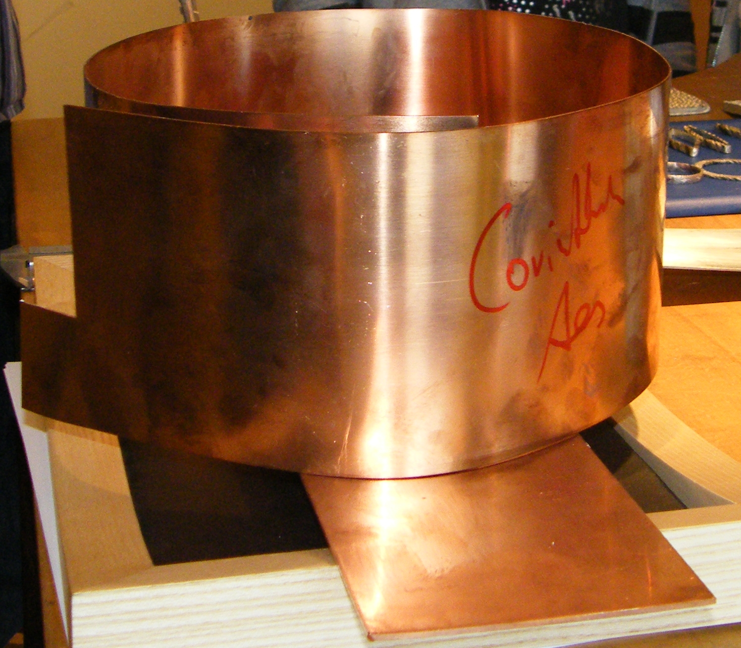 Picture make by myself. Now modified with Paint Shop.